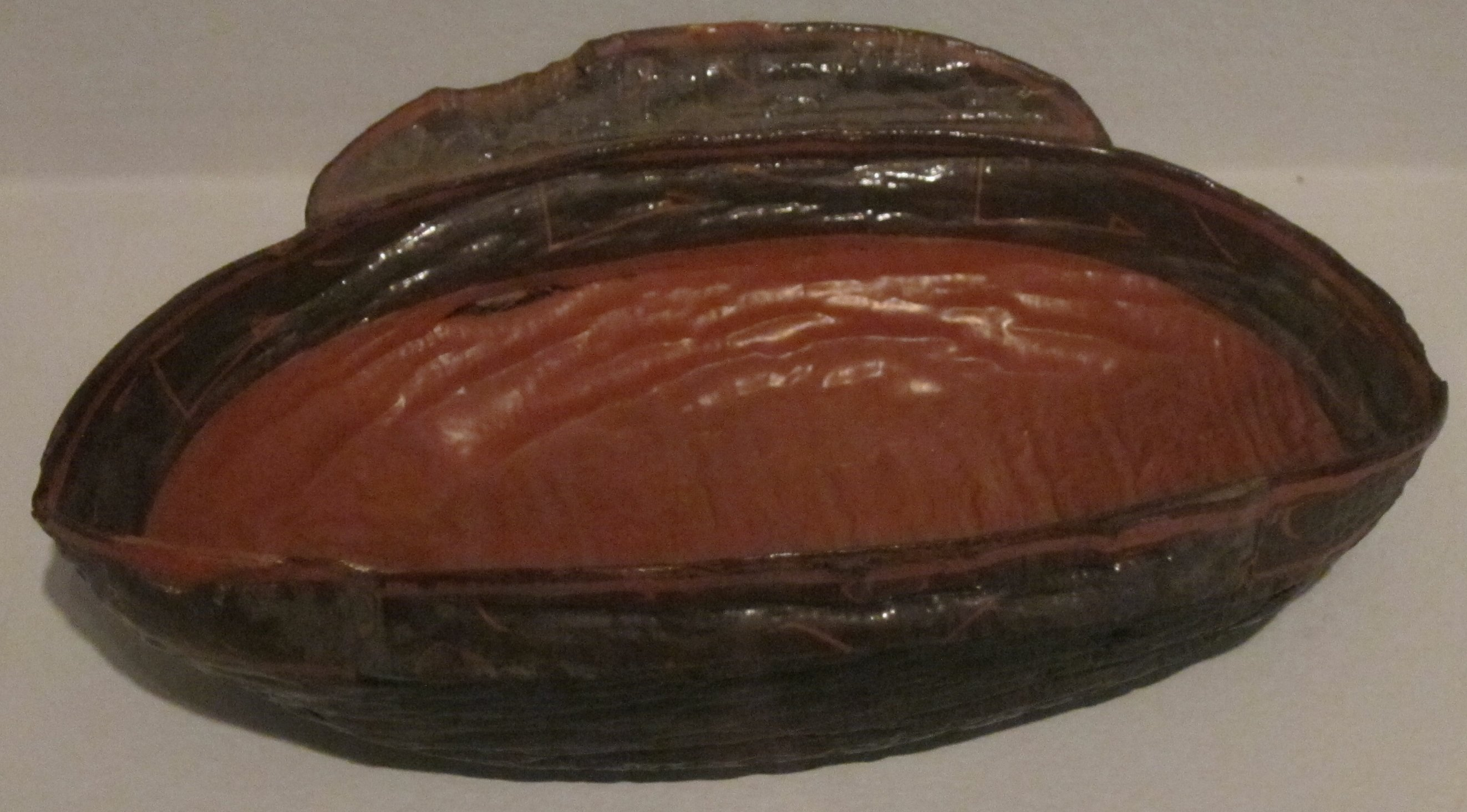 Cup, China, Warring States period (475-221 BCE), lacquered wood, Honolulu Museum of Art